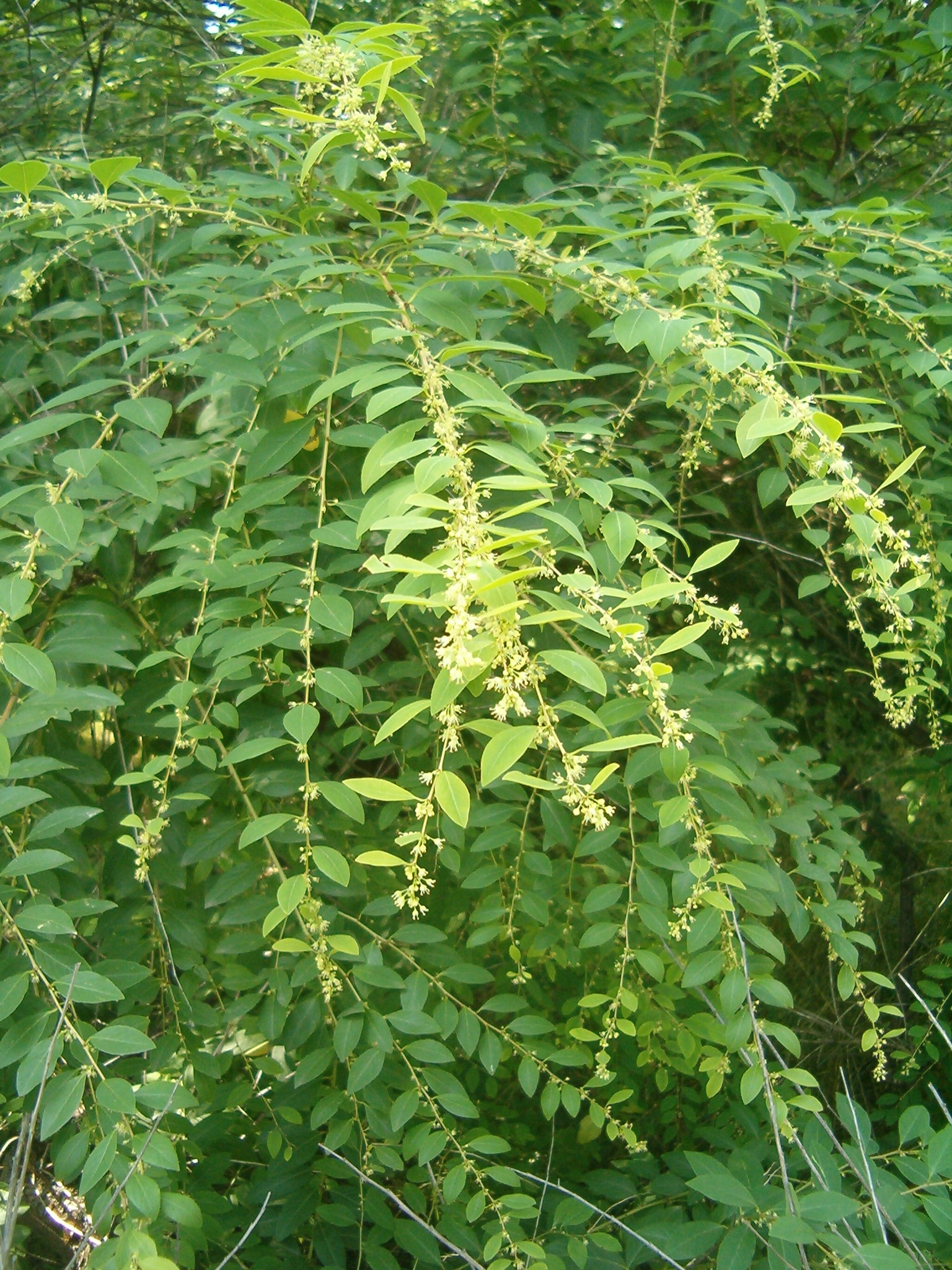 At Botanical Gardens Berlin-Dahlem Species Flueggea suffruticosa male pflant